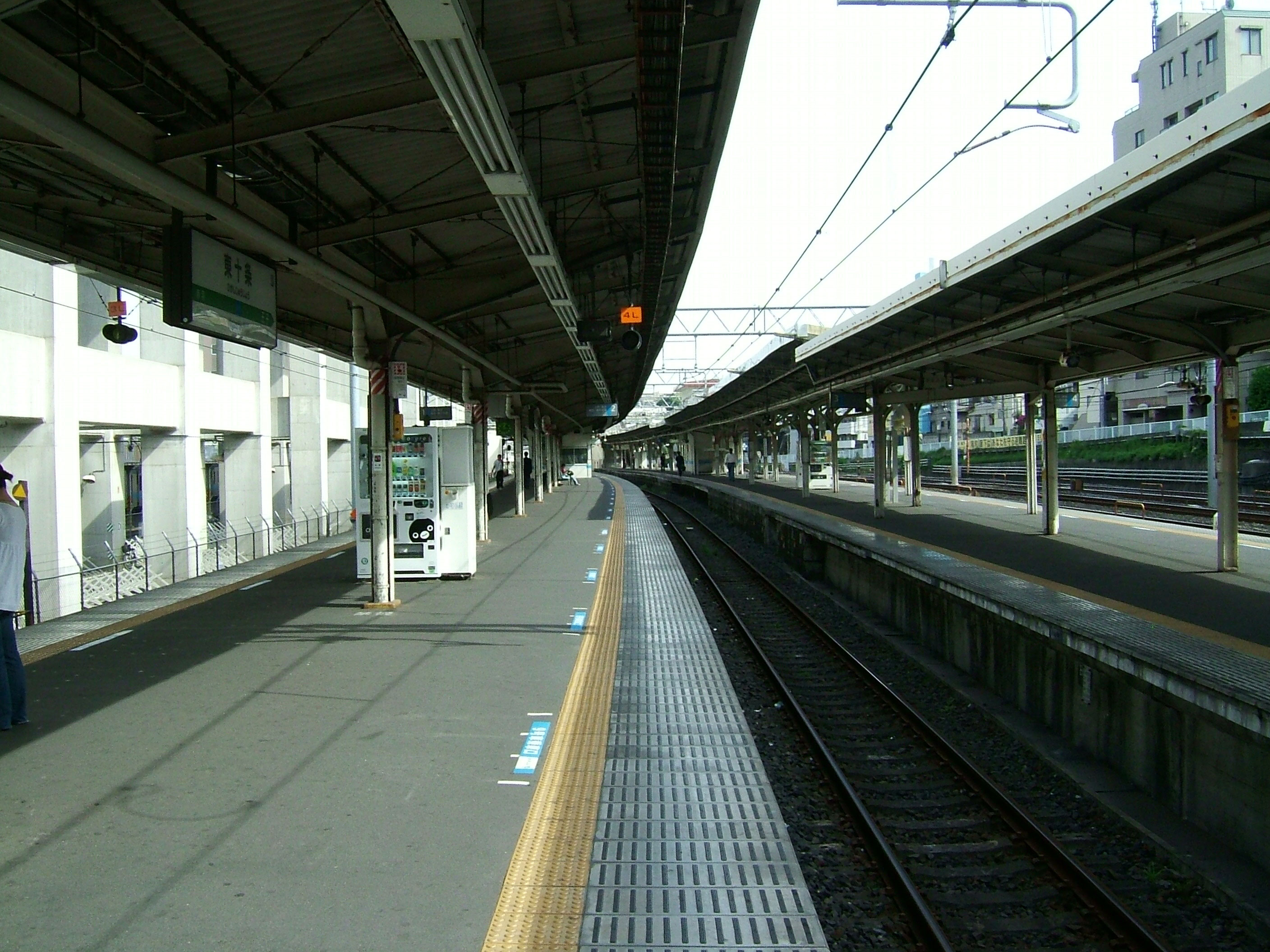 View of the platforms of Higashi-Jūjō Station on the Keihin-Tohoku Line